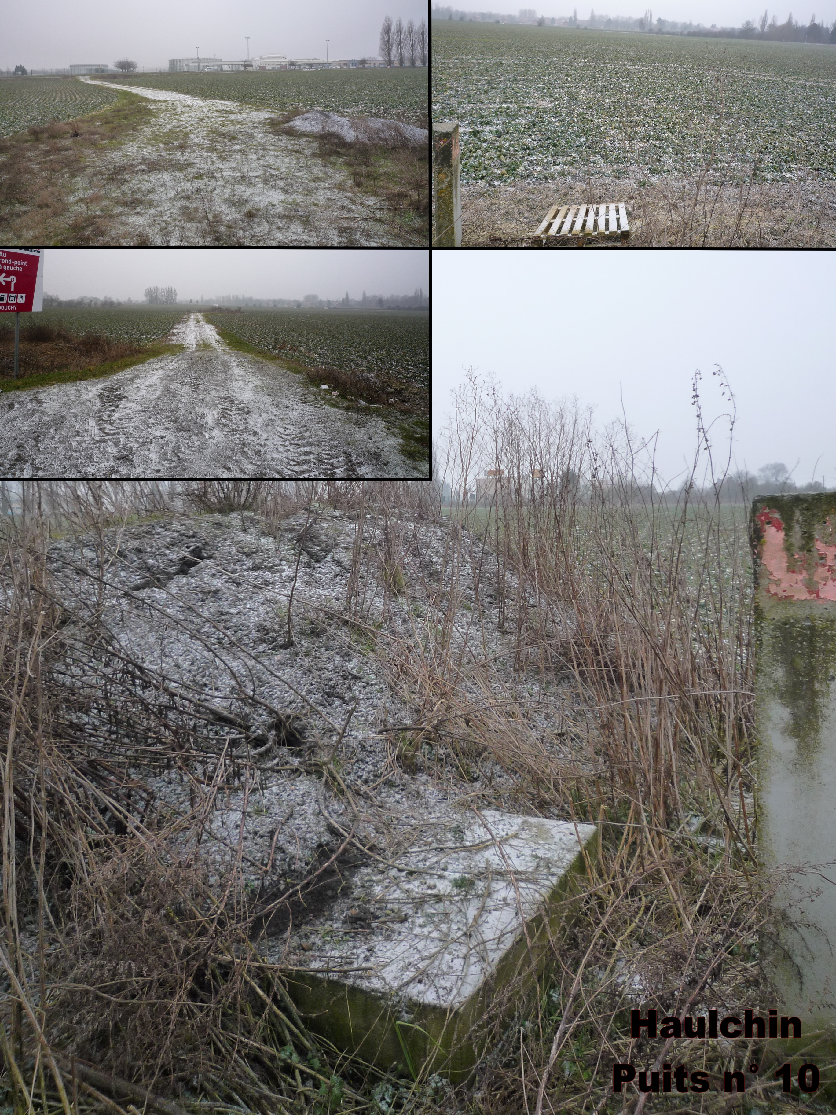 Pit n° 10, Compagnie des mines de Douchy, Haulchin, Nord, Nord-Pas-de-Calais, France.